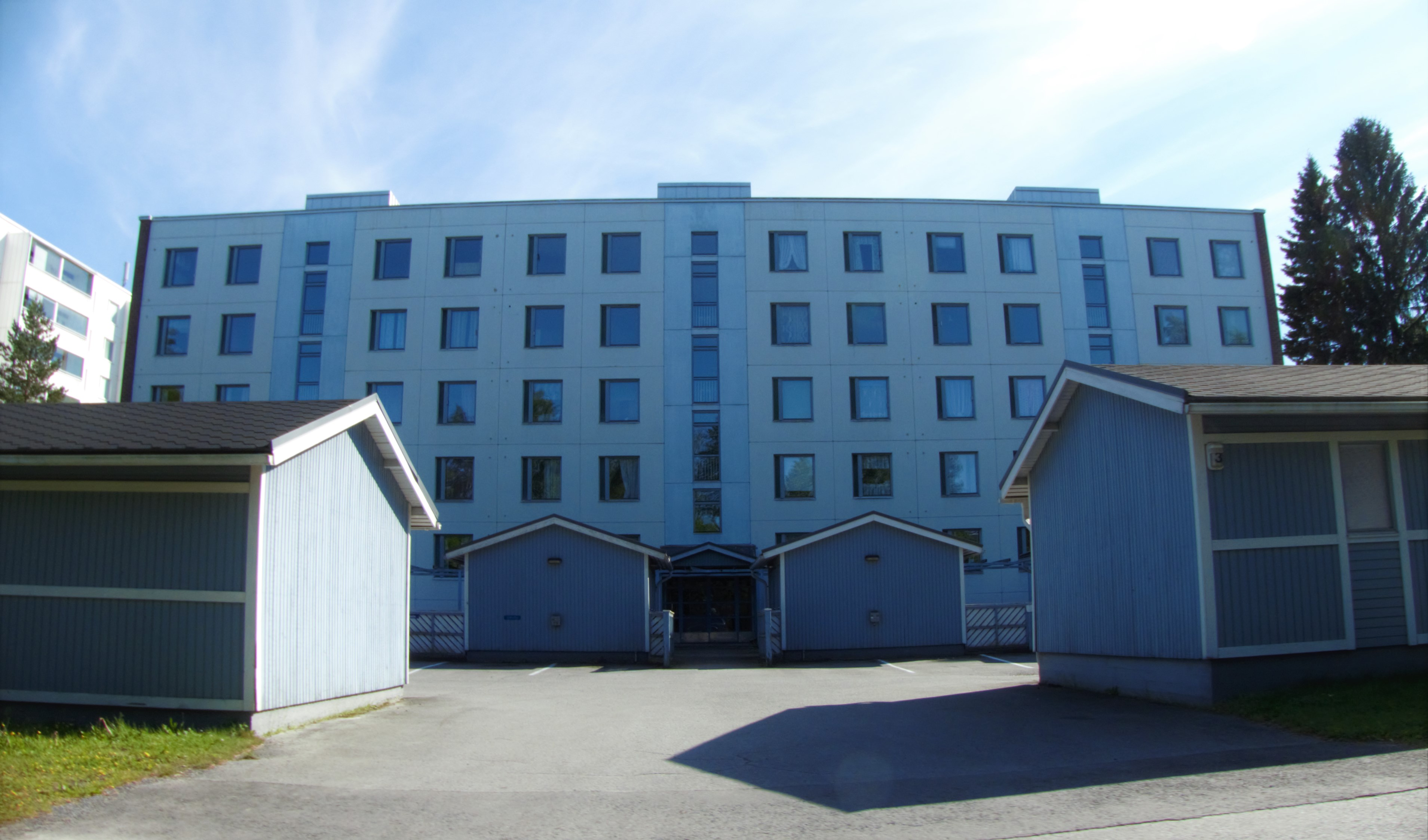 Kasperinviita 3, Kasperi, Seinäjoki. The house was built in 1977.